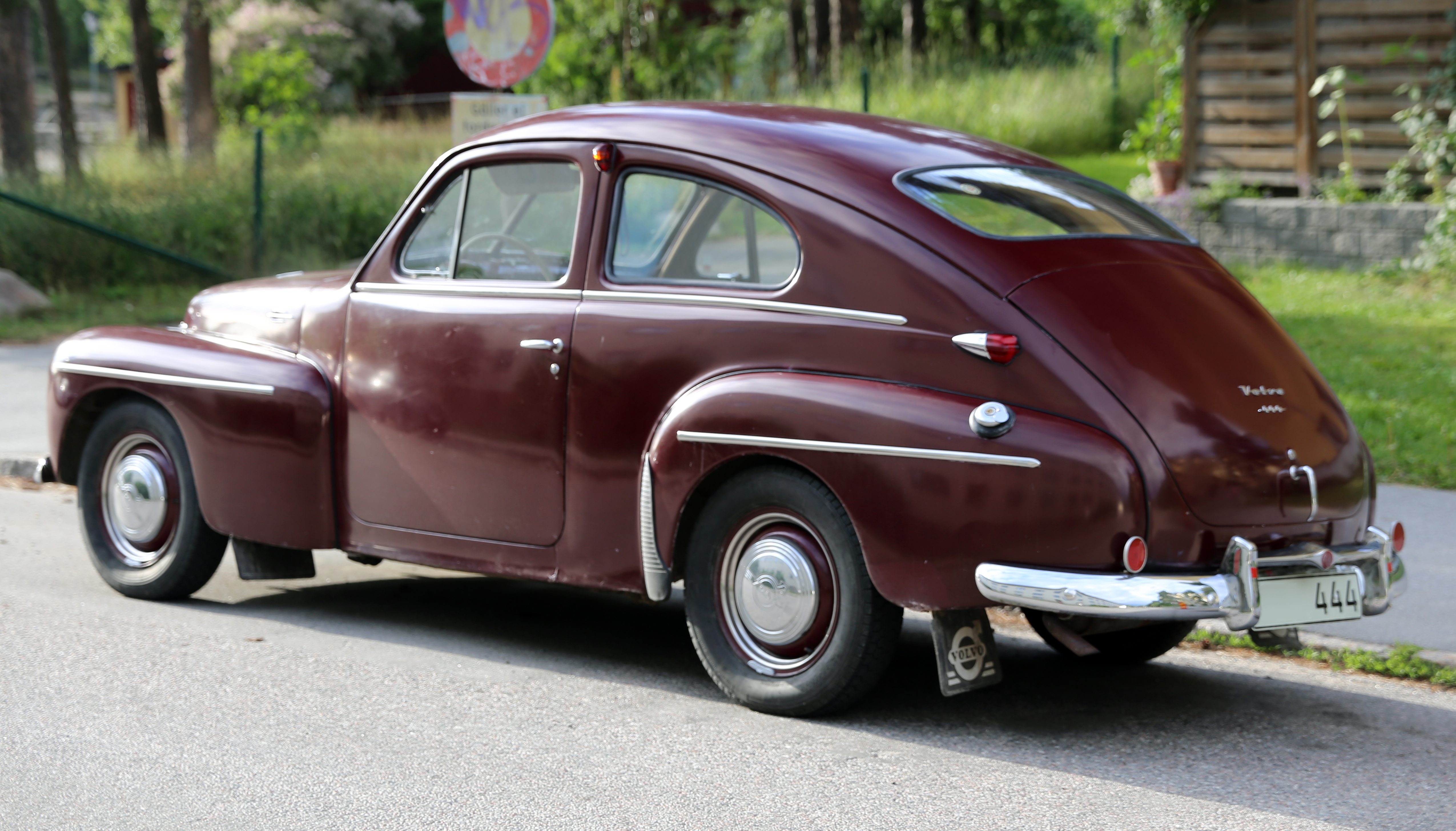 1954 Volvo PV444 HS. This version, with the large rear window and 44hp, was introduced in December 1954. The license plate that ends in "444" is an unlikely coincidence, I presume that the car's 1973 owner (when the new Swedish plates were introduced) must have had some pull at Länsstyrelsen. Nice to see an old PV that is not drowning under the weight of a bunch of senseless extra equipment.